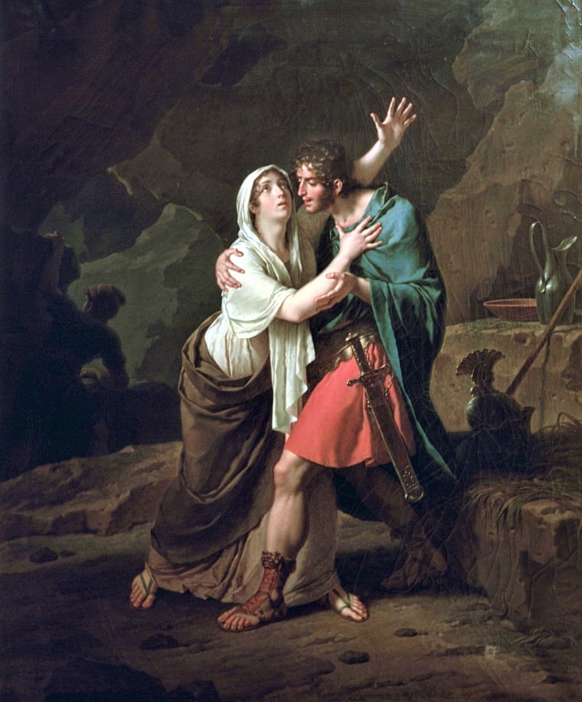 painting of Eponine and Sabinus